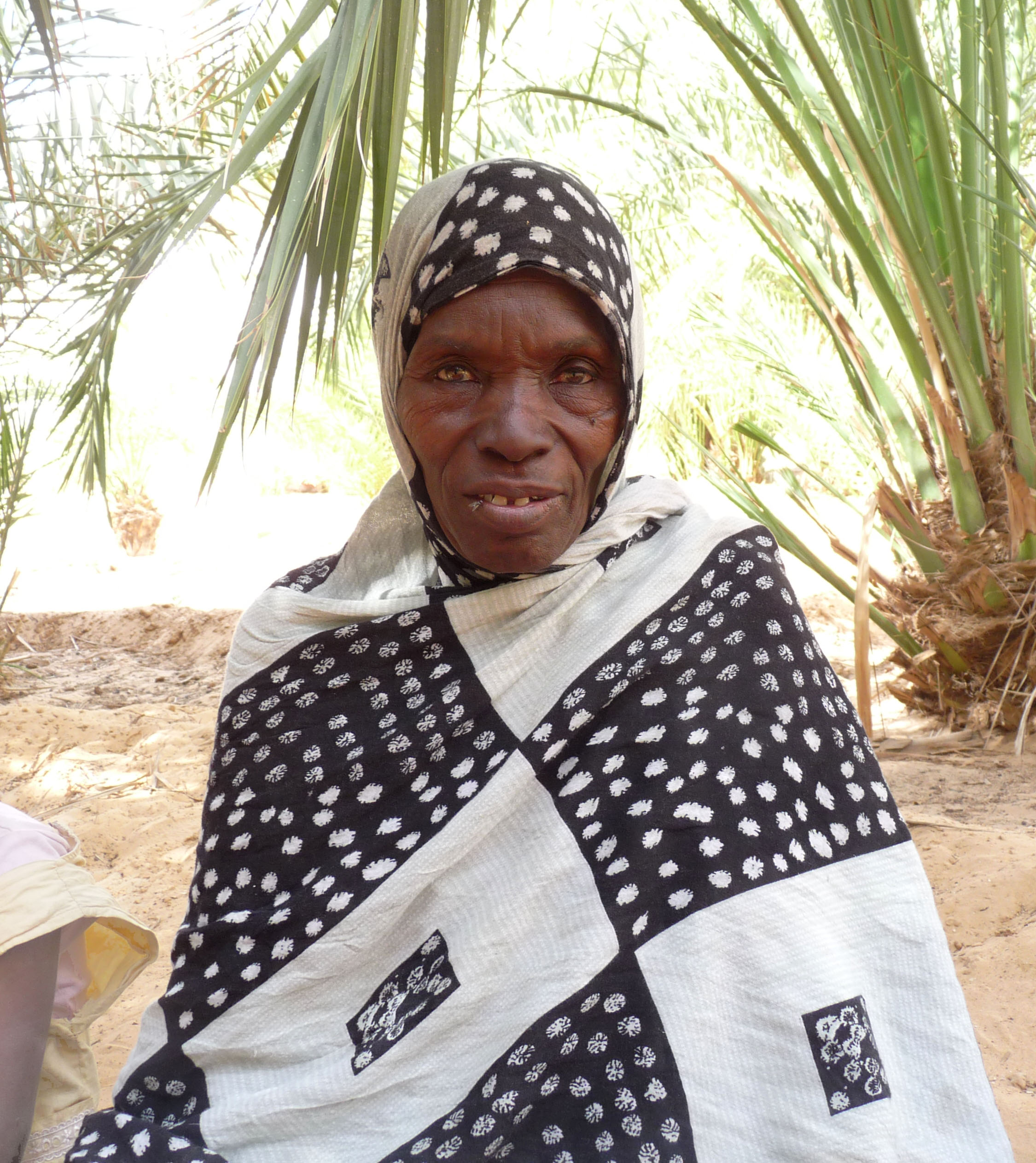 Women in Lagueila, an oasis of Mauritanian Adrar